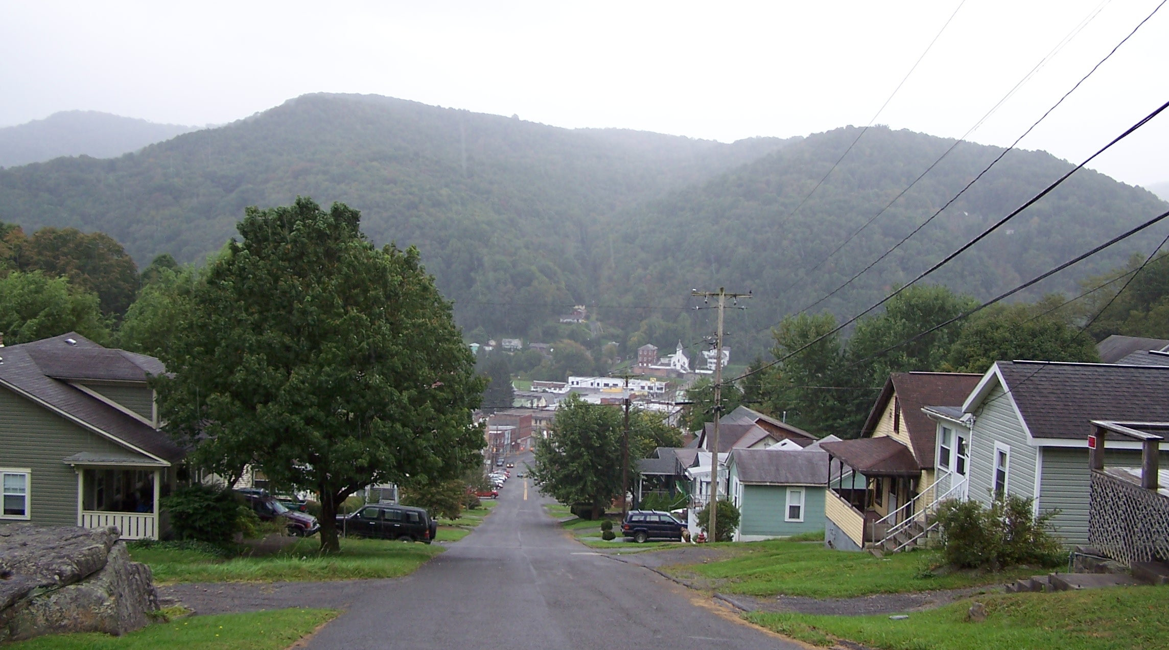 Self-made image of Richwood, West Virginia, from the top of Oakford Avenue looking towards town taken on September 24, 2006.